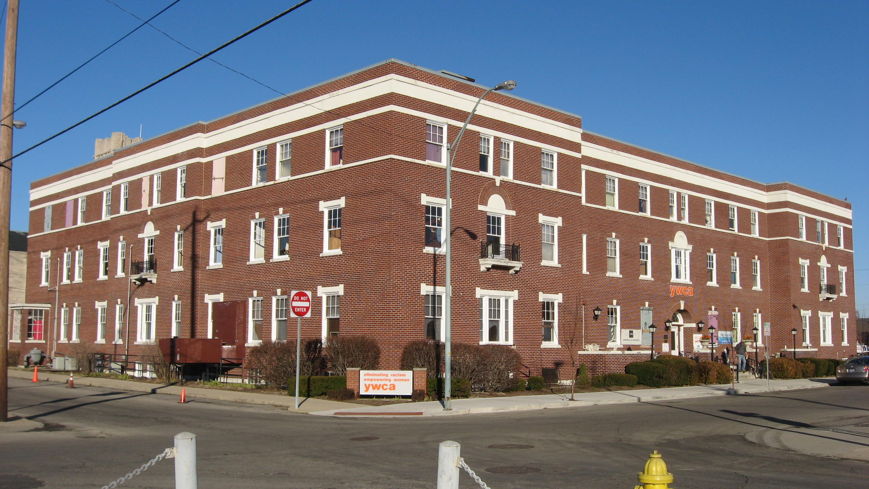 Front and western side of the Muncie YWCA, located at 310 E. Charles Street in Muncie, Indiana, United States. Built in 1925, it is listed on the National Register of Historic Places.